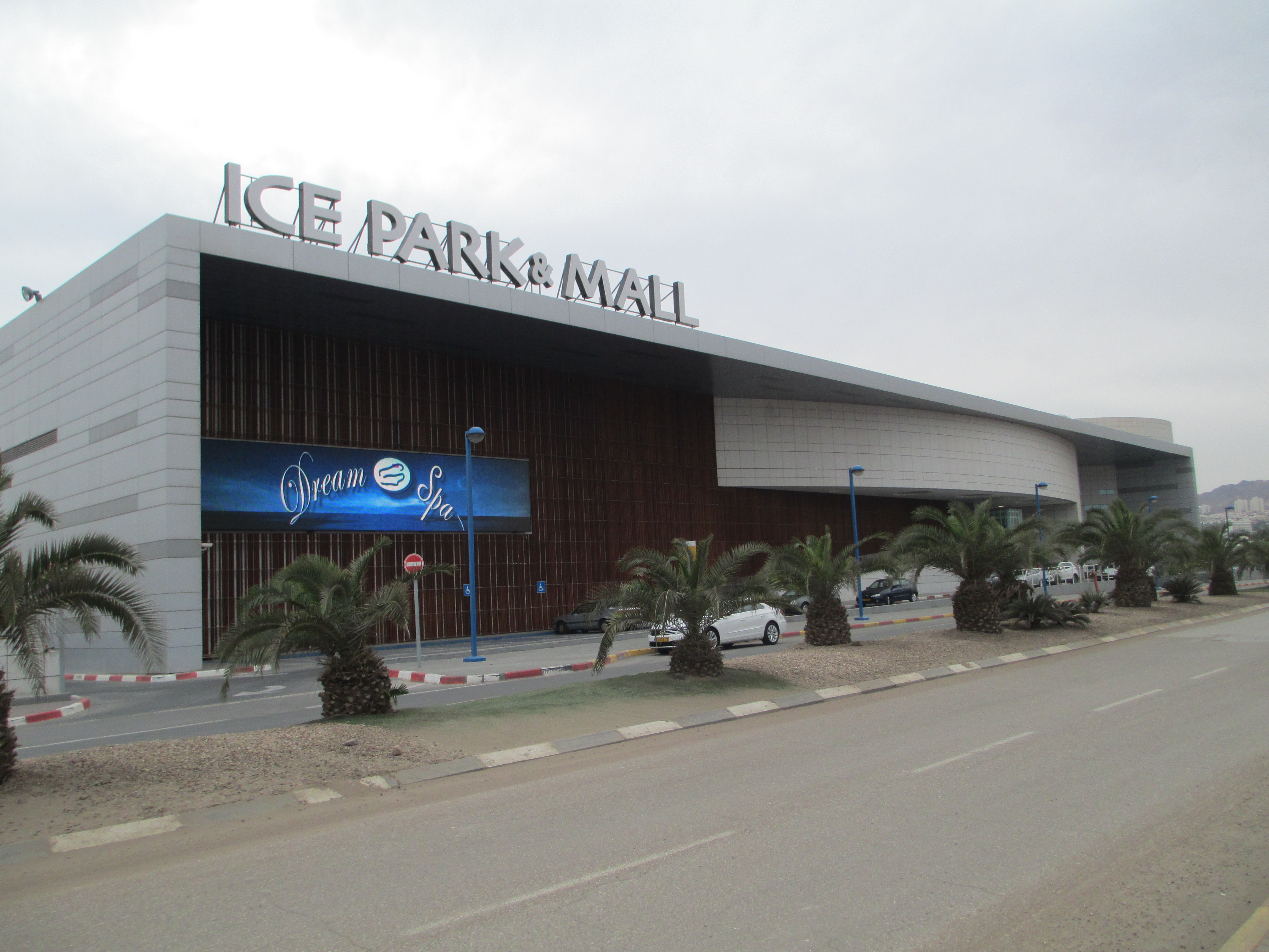 Ice park mall in Eilat